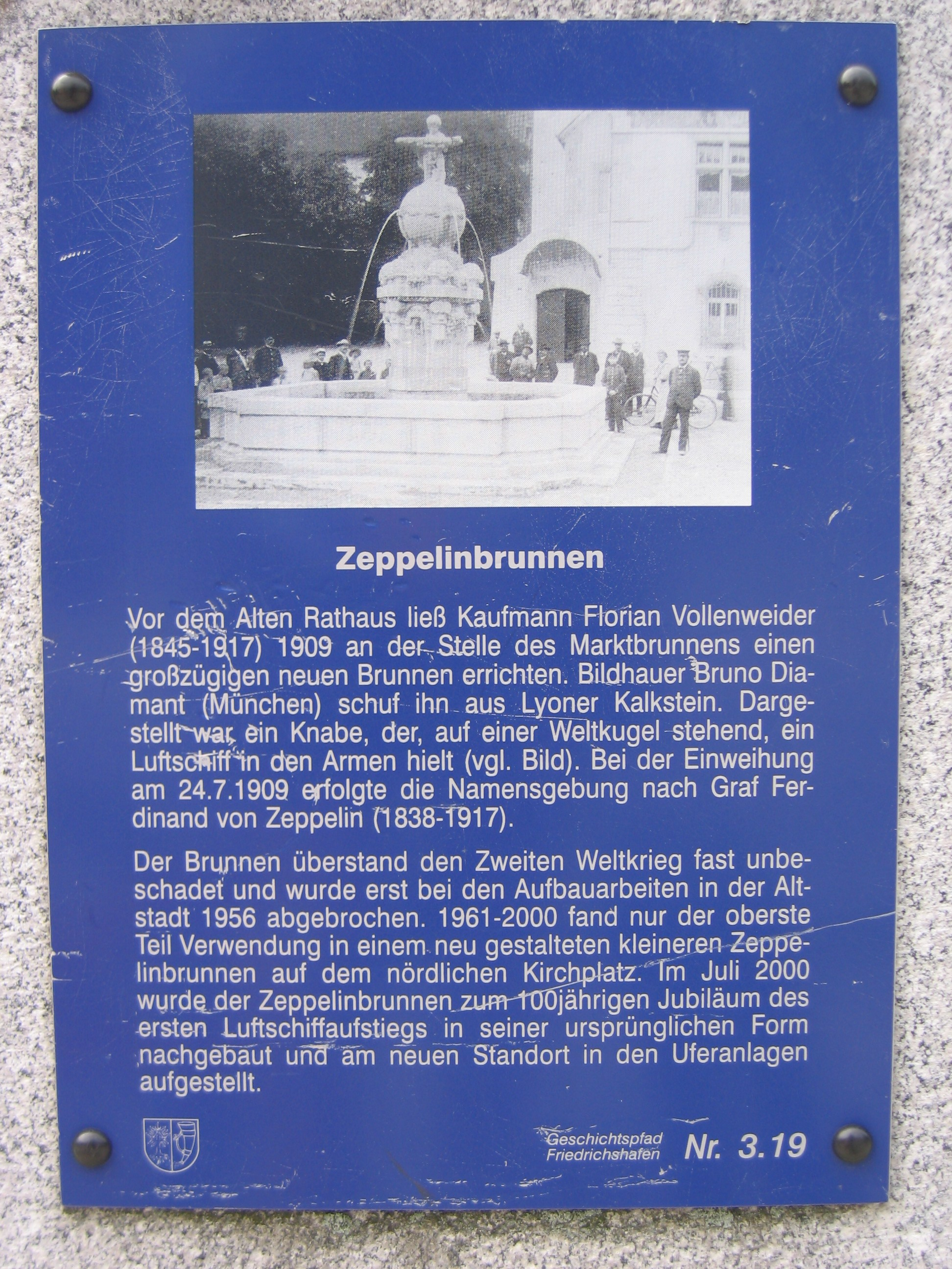 Germany - Baden-Württemberg - Bodenseekreis - Friedrichshafen: history trail, mark 3.19 (Zeppelinbrunnen)